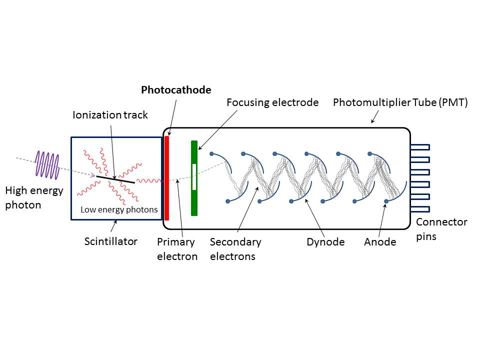 Schematic of a photomultiplier coupled to a scintillator, configured to show, correctly, the detection of gamma rays